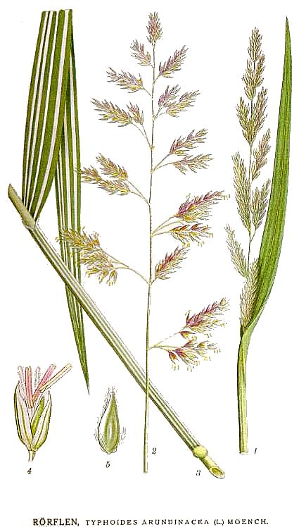 Phalaris arundinacea L., syn. Typhoides arundinacea (L.) Moench Original Description "Rörflen", Typhoides arundinacea (L.) Moench.